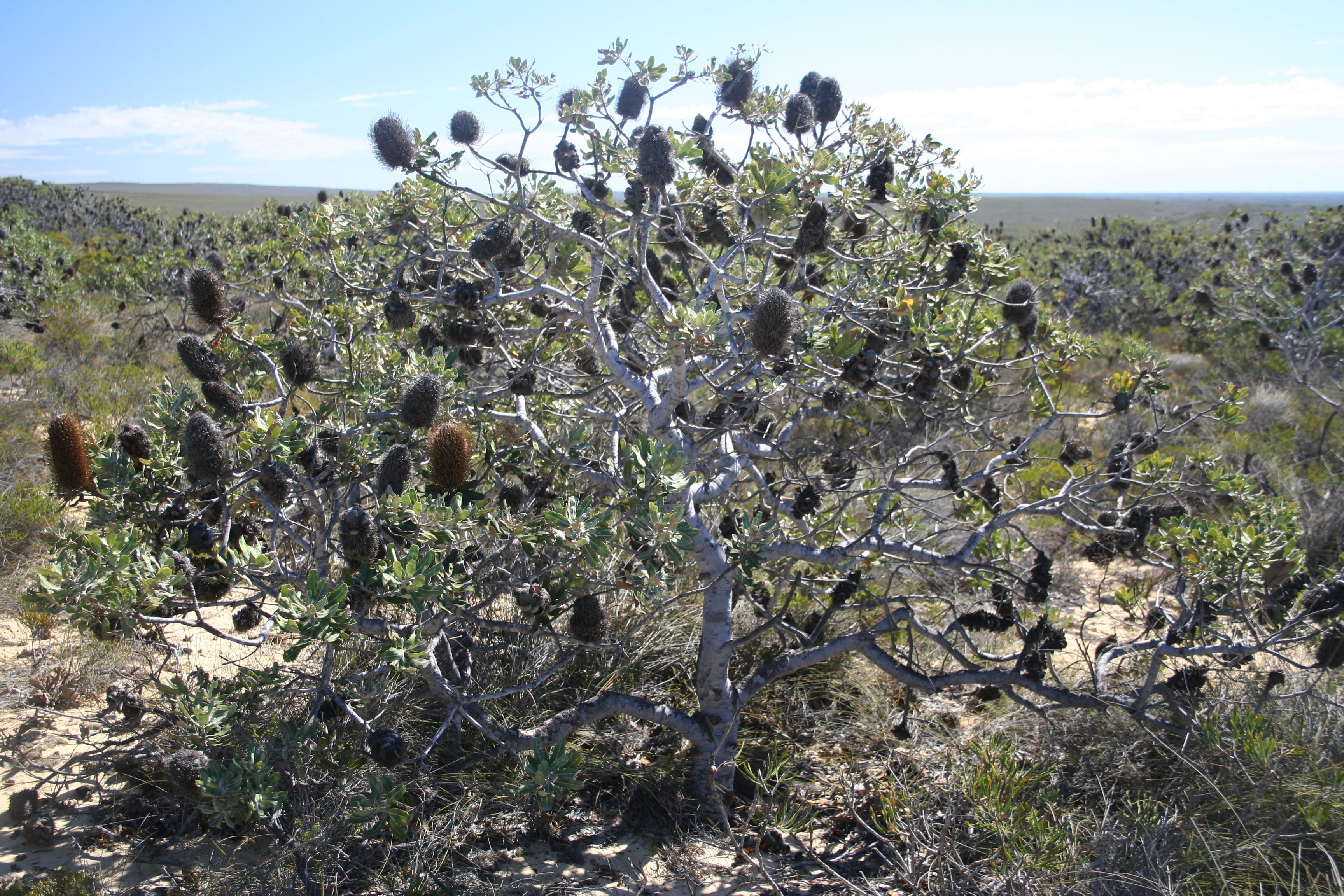 Banksia sceptrum - somwaht low spreading habit in shrubland. abt halfway between Kalbarri NP and Shark Bay..near Rabbit Proof Fence